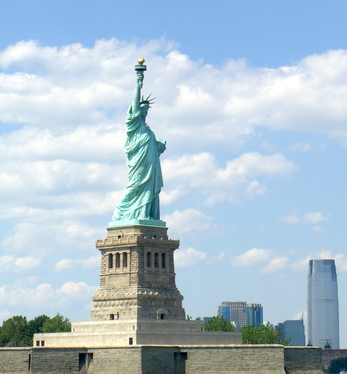 The Statue of Liberty, as seen on July 6, 2009. At right in the background is the Goldman Sachs Tower, the tallest building in New Jersey. Photographed by Luigi Novi. This photo is not in the public domain. It may, however, be used, modified and published for any purpose, free of charge, only if the photographer is properly credited, either by linking the photograph to this page, or with an easily visible credit to the photographer placed near the photo in each instance in which it is used. (See licensing information below.) Publication of this photo without this proper attribution constitutes copyright infringement. If you have any questions, you can contact me on my Wikipedia Talk Page.